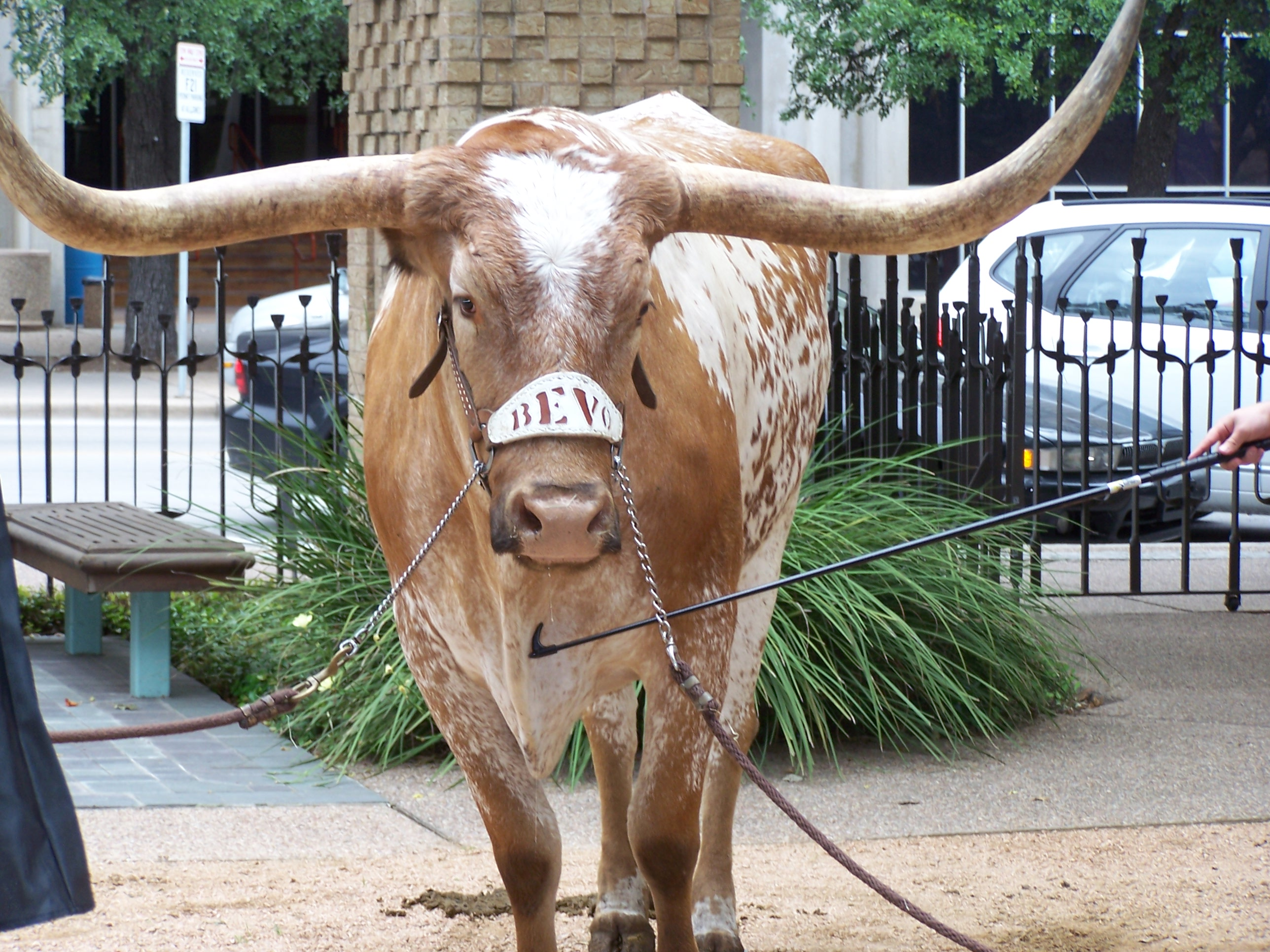 Bevo, the mascot of the University of Texas at Austin